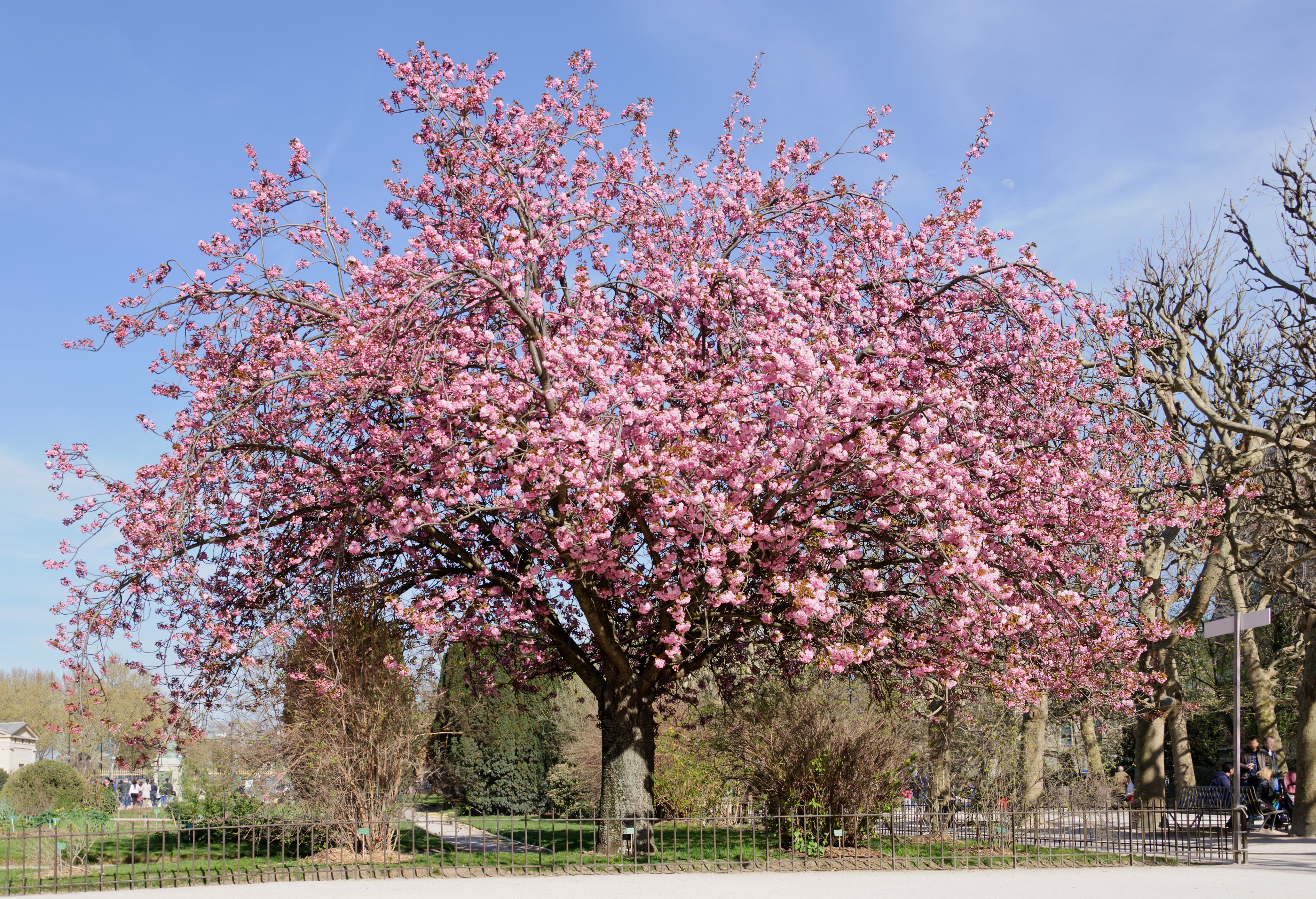 Japanese Cherry 'Kanzan' (Prunus serrulata (Sato-zakura Group) 'Kanzan') in bloom - Jardin des Plantes, Paris, France.